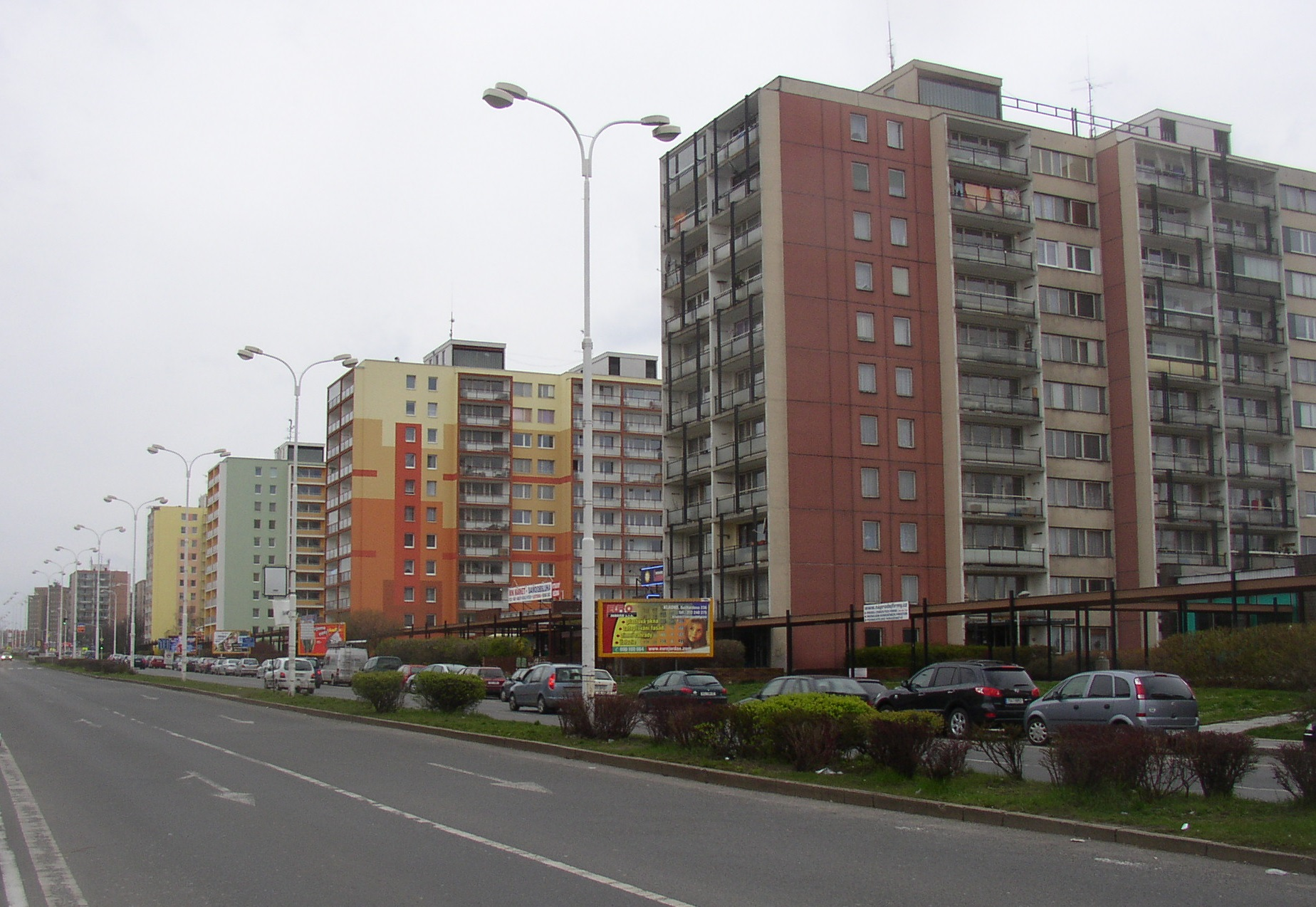 Kladno, Kladno District, Czech Republic. Prefab houses along ČSA (Czechoslovak Army) Street, one of main arteries of the city, connecting its centre with western district of Rozdělov.